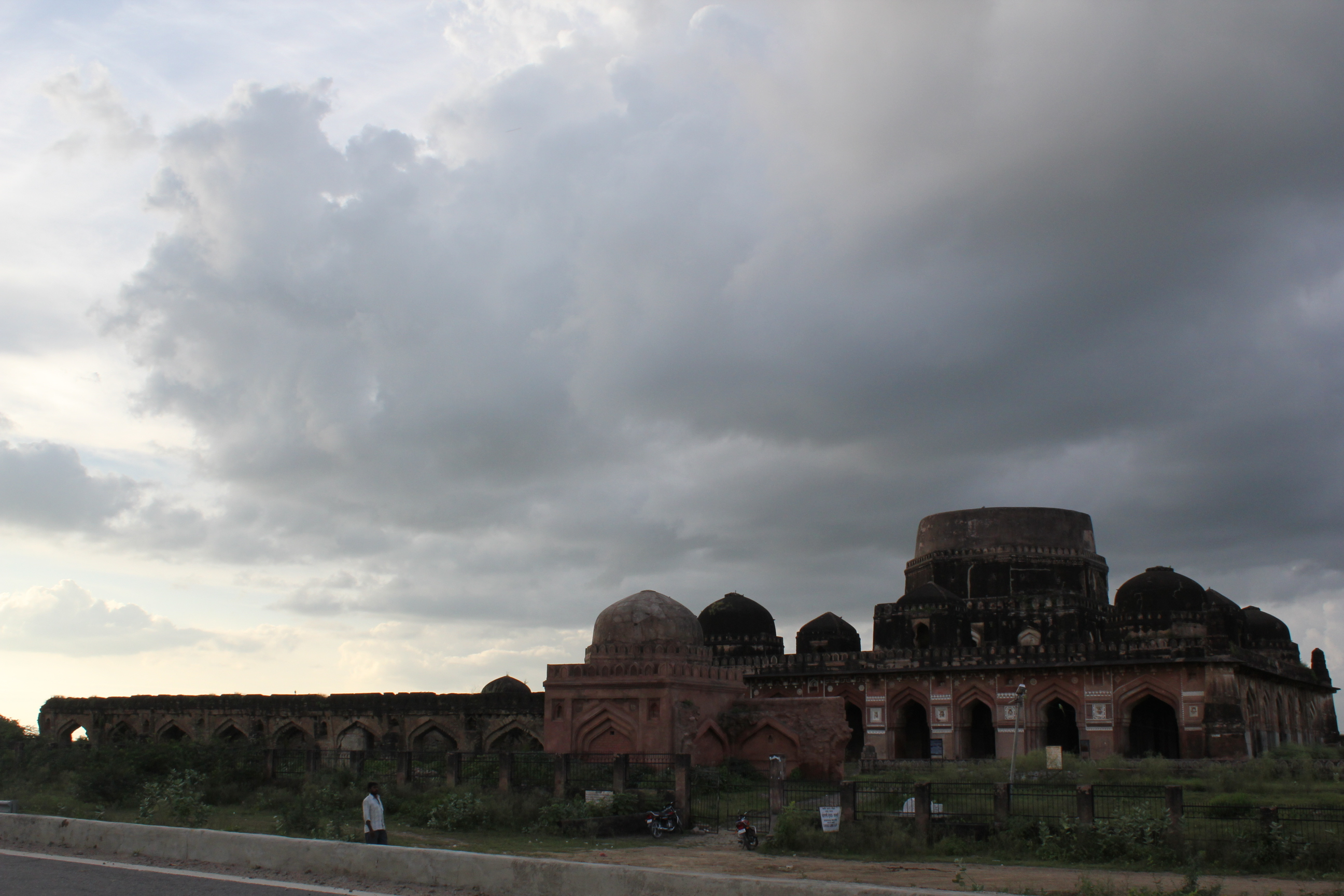 South facing view of Chaurasi Gumbad from the highway. Picture taken: Sep 2010